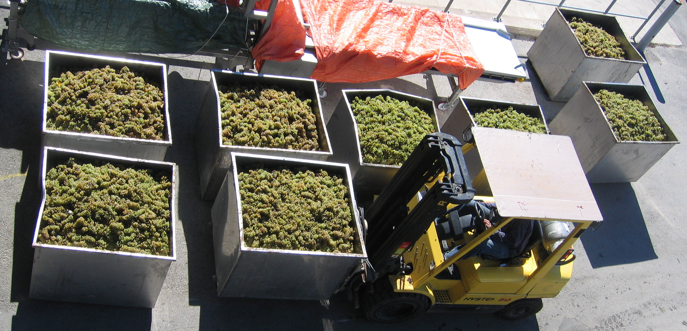 Newly harvested grapes arrive at Jackson-Triggs winery in Niagara, Ontario, Canada